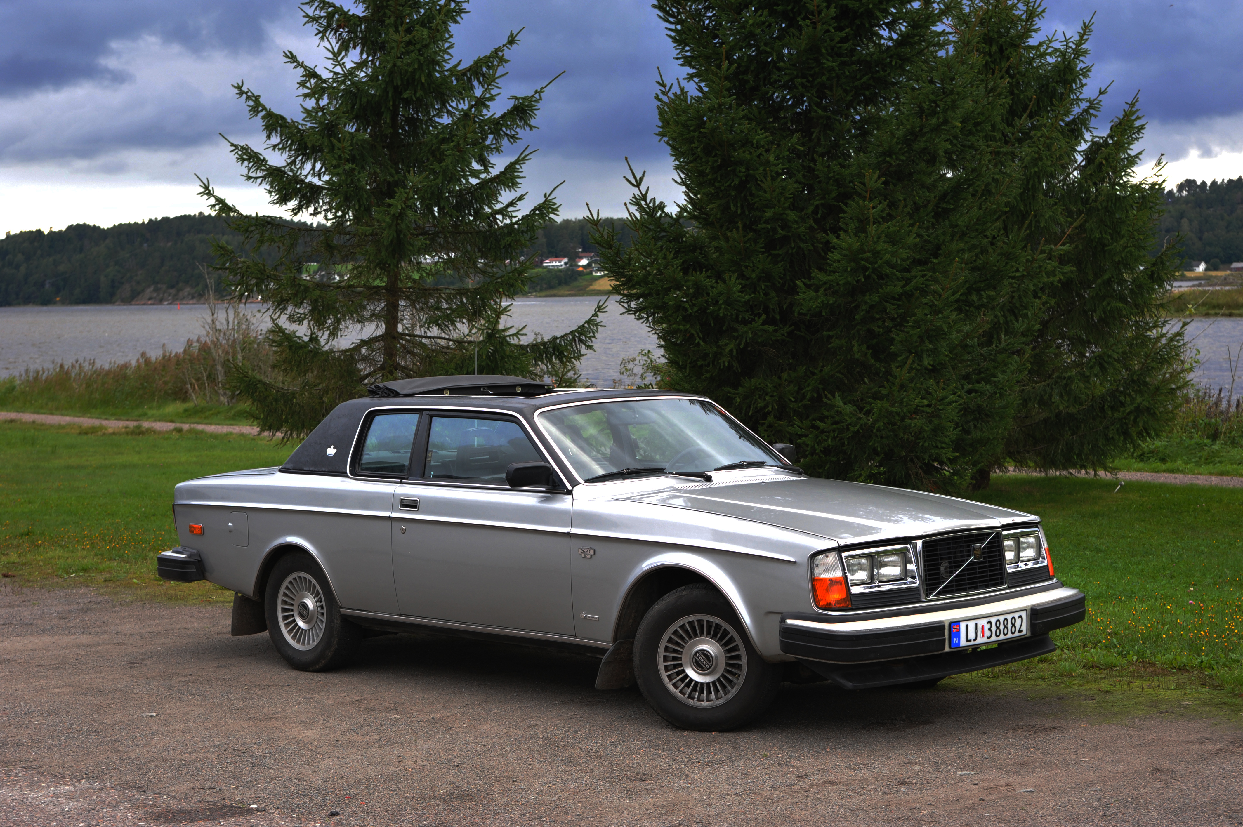 1978 Volvo 262 C — Coupe Bertone.